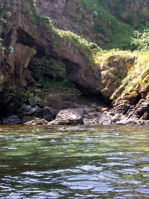 Natural arch on Sheep Island near Mull of Kintyre, Scotland